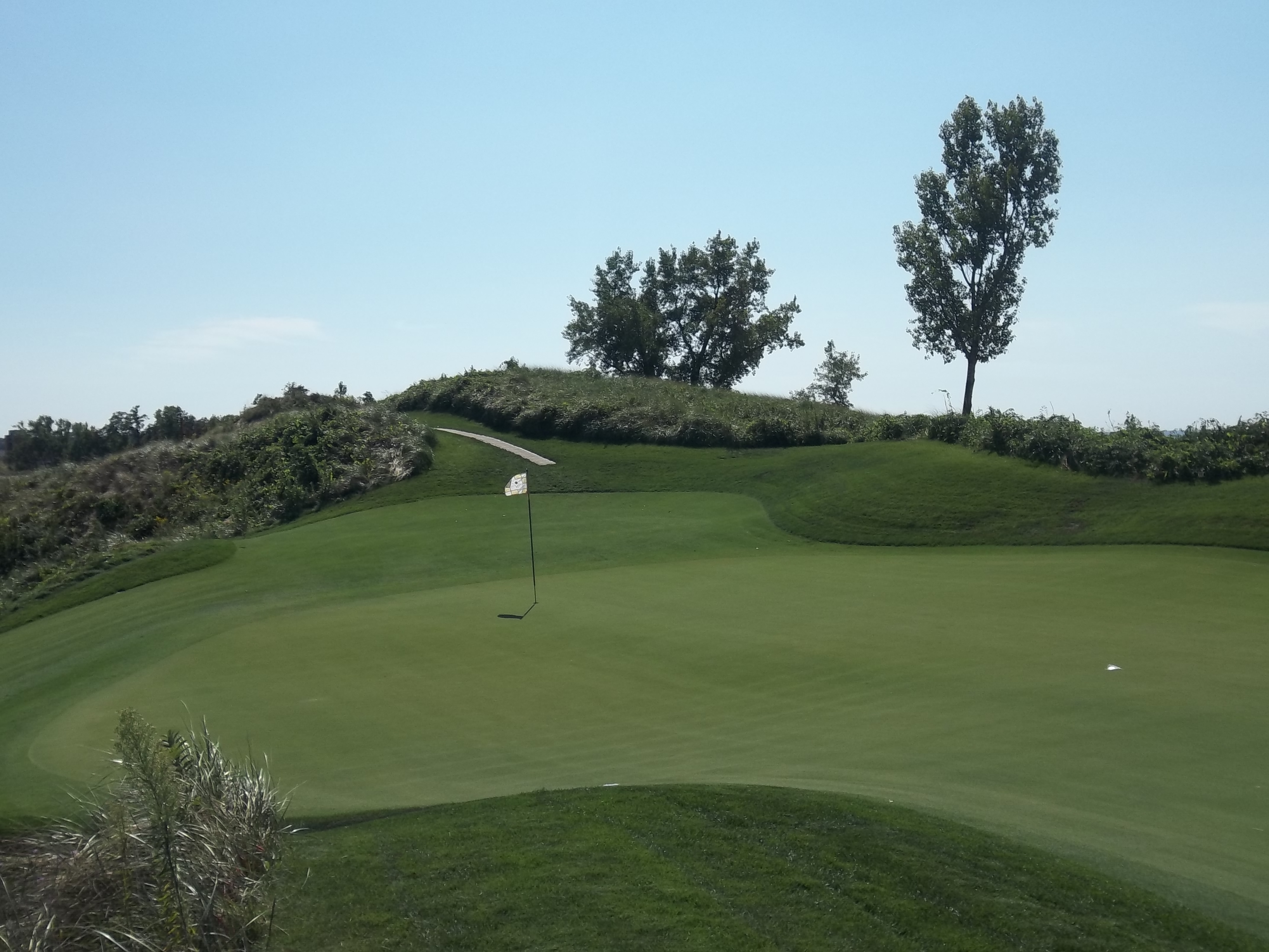 Looking at Hole No. 7